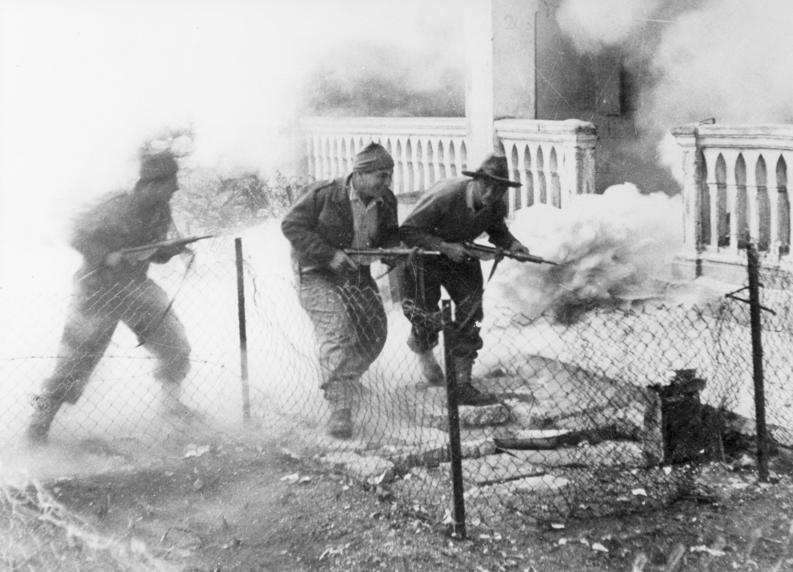 The Palmach, Israel Defense Forces